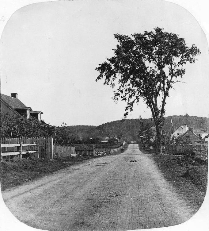 Photograph, Côte des Neiges, Montreal, QC, 1859, William Notman (1826-1891). Silver salts on paper mounted on card - Albumen process - 7.3 x 7 cm